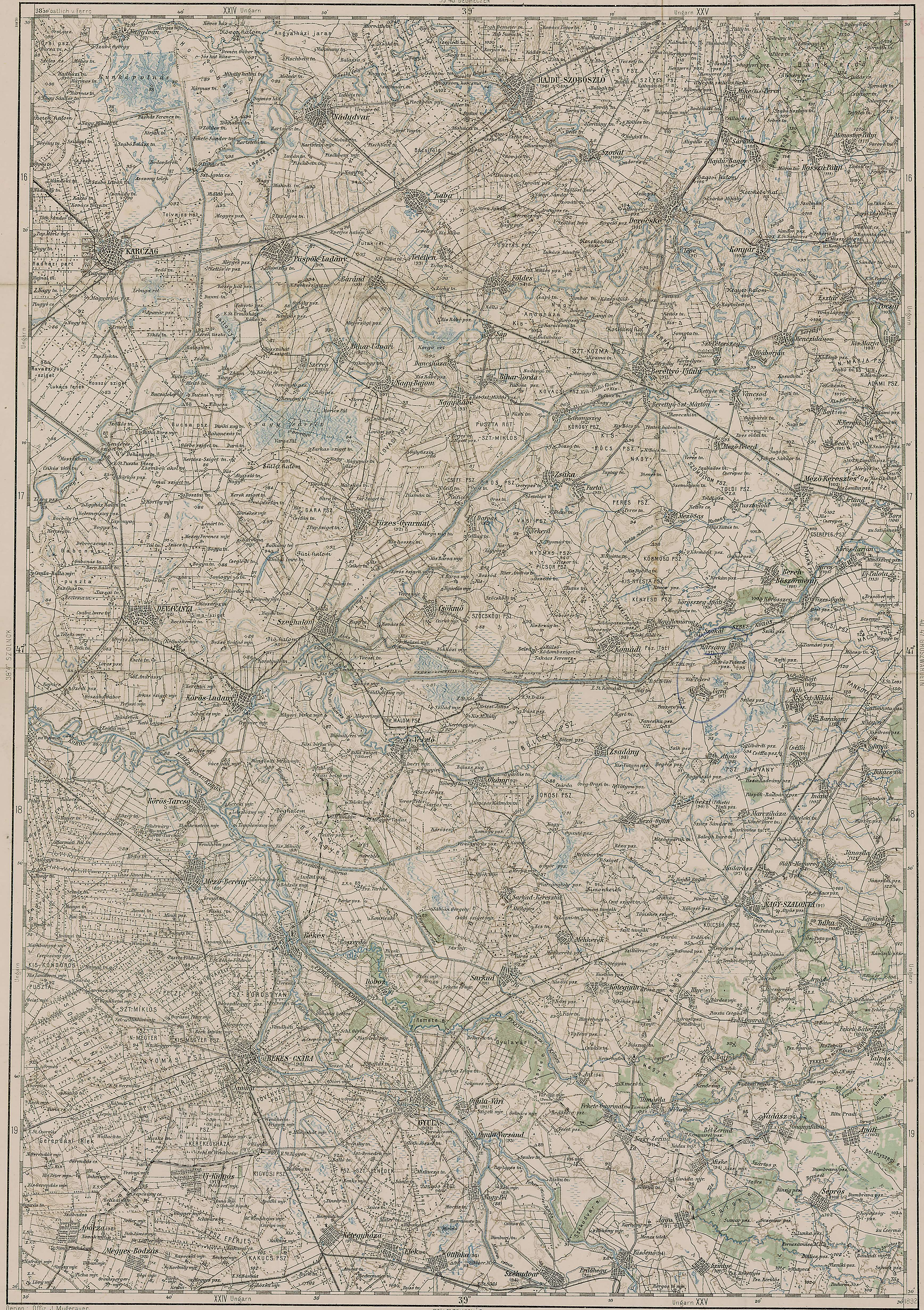 3rd Military Mapping Survey of Austria-Hungary - Békéscsaba